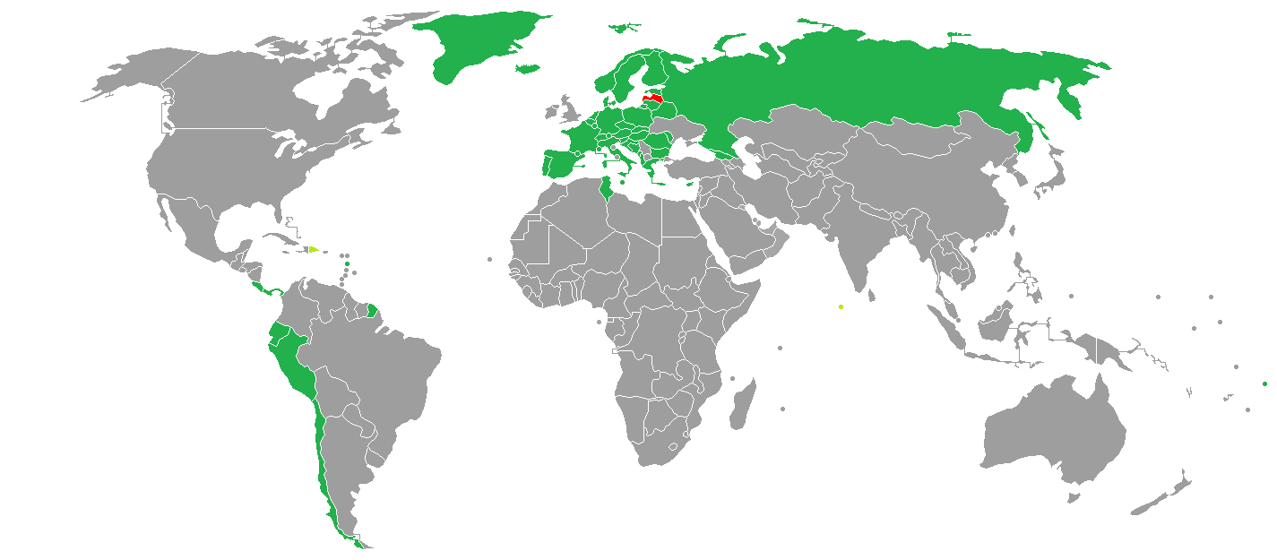 Visa requirements for Latvian non-citizens